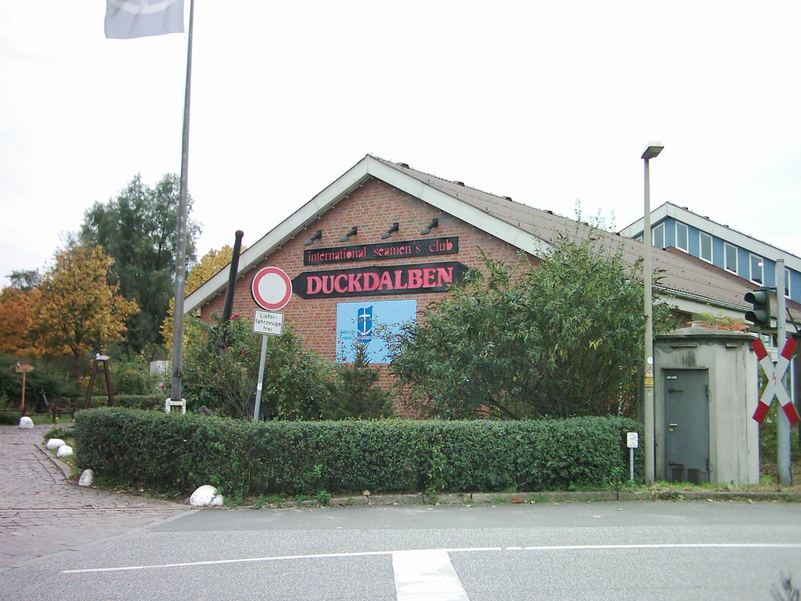 International seamen's club in Hamburg-Waltershof, Germany.